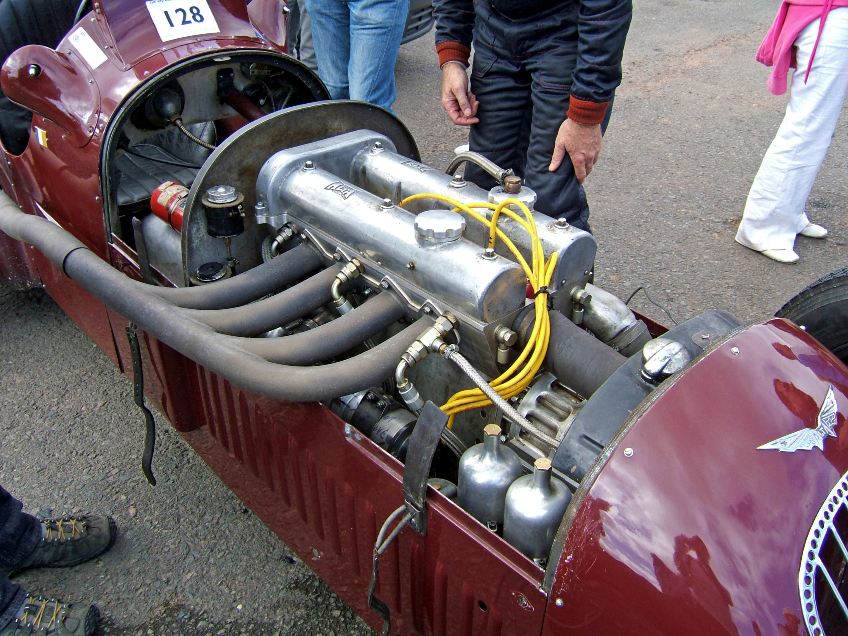 pre-WWII Alta racing engine (c. 1937) in the paddock of the VSCC SeeRed race meeting, Donington Park, September 2007.